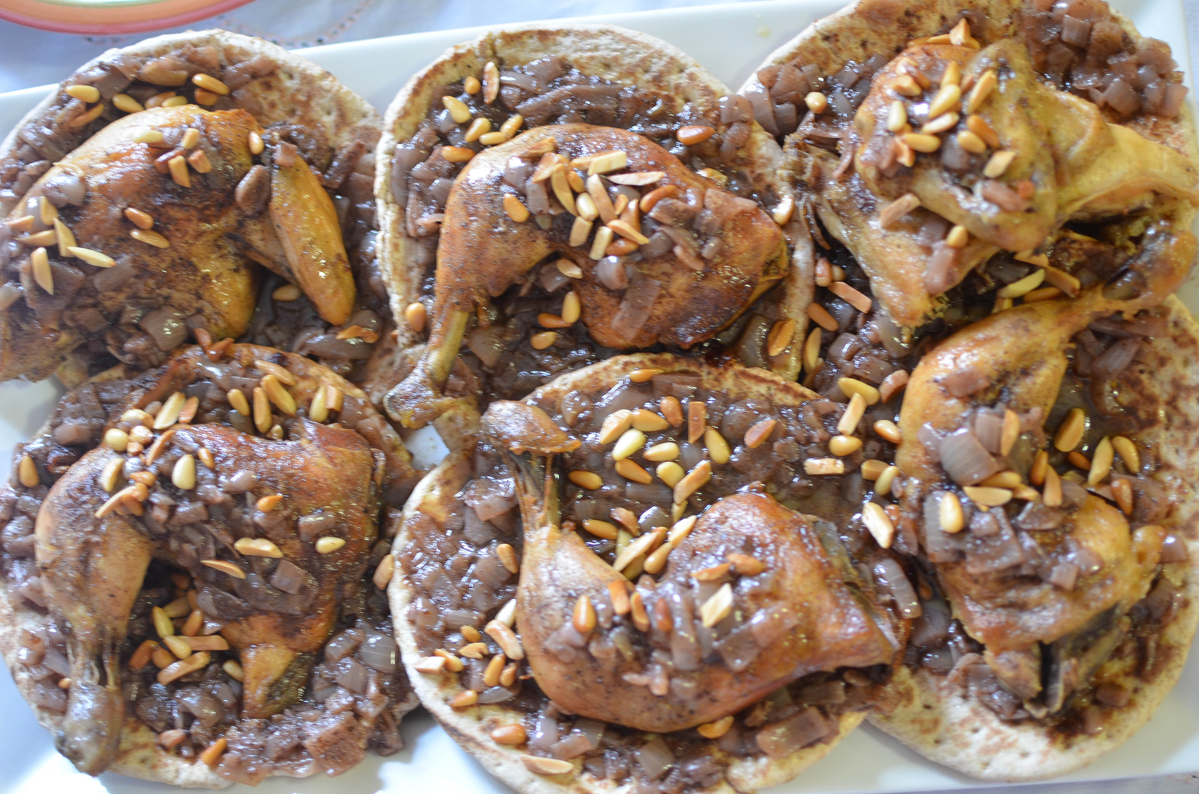 Showing six servings of the traditional Palestinian dish of Musakhan.